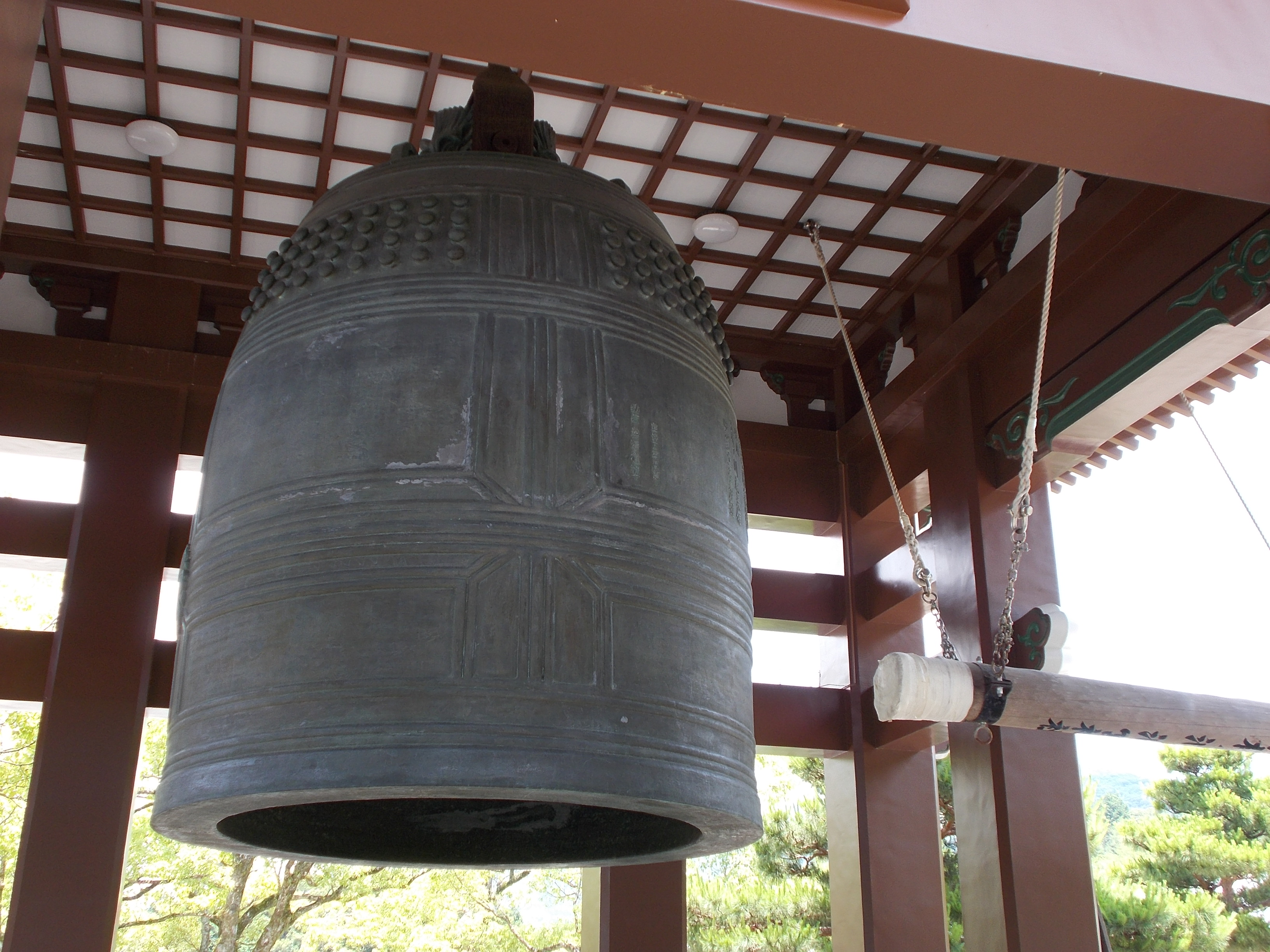 The Hiryu-no-kane bell of Rengein Tanjo-ji Okunoin in Tamana, Kumamoto, Japan